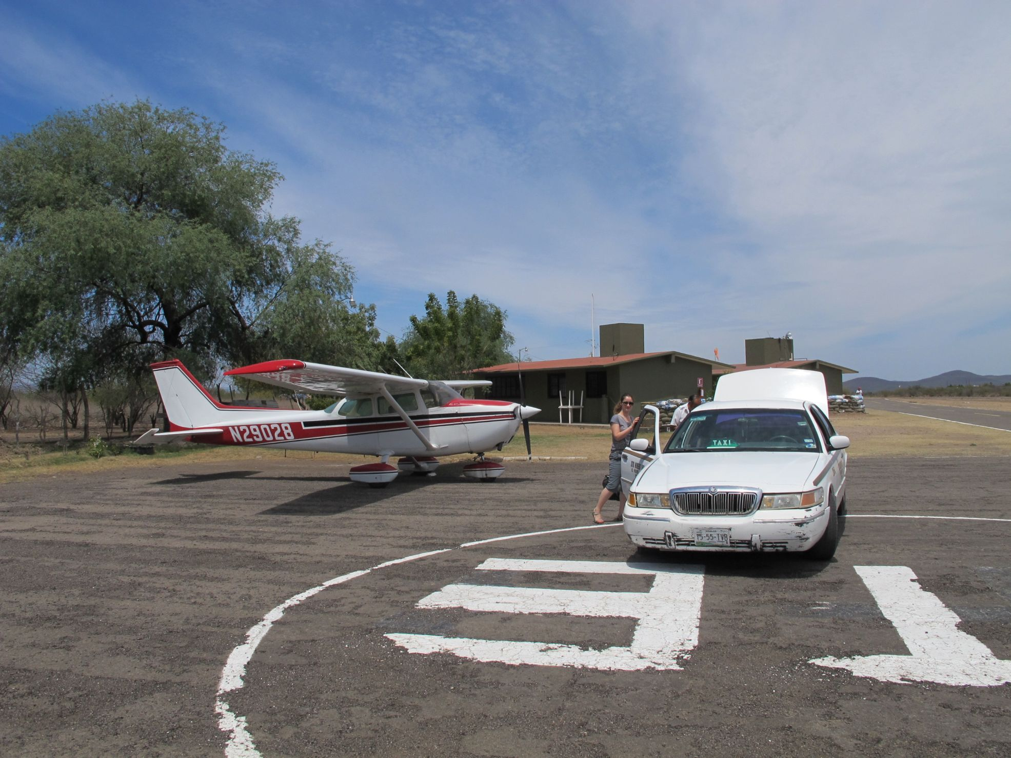 Cessna 172M parked at MM79 El Fuerte, Sinaloa, Mexico